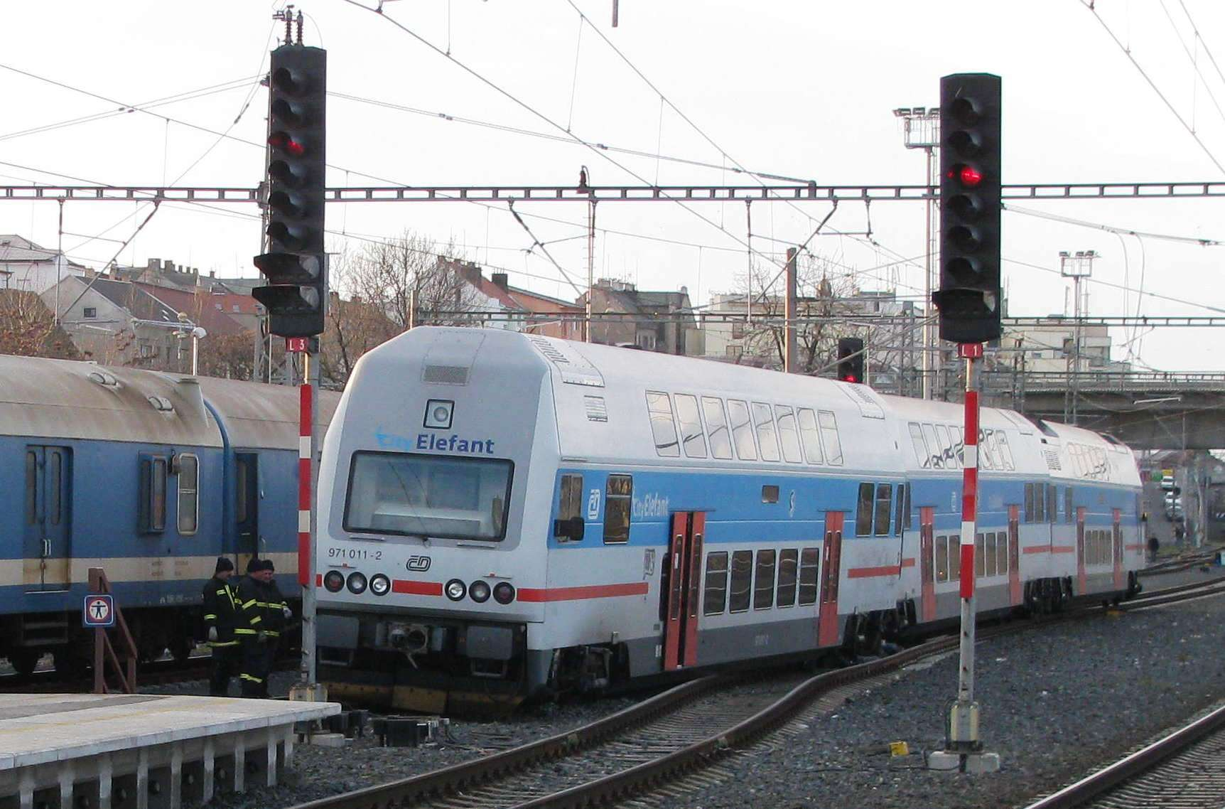 Derailment in Kolín.